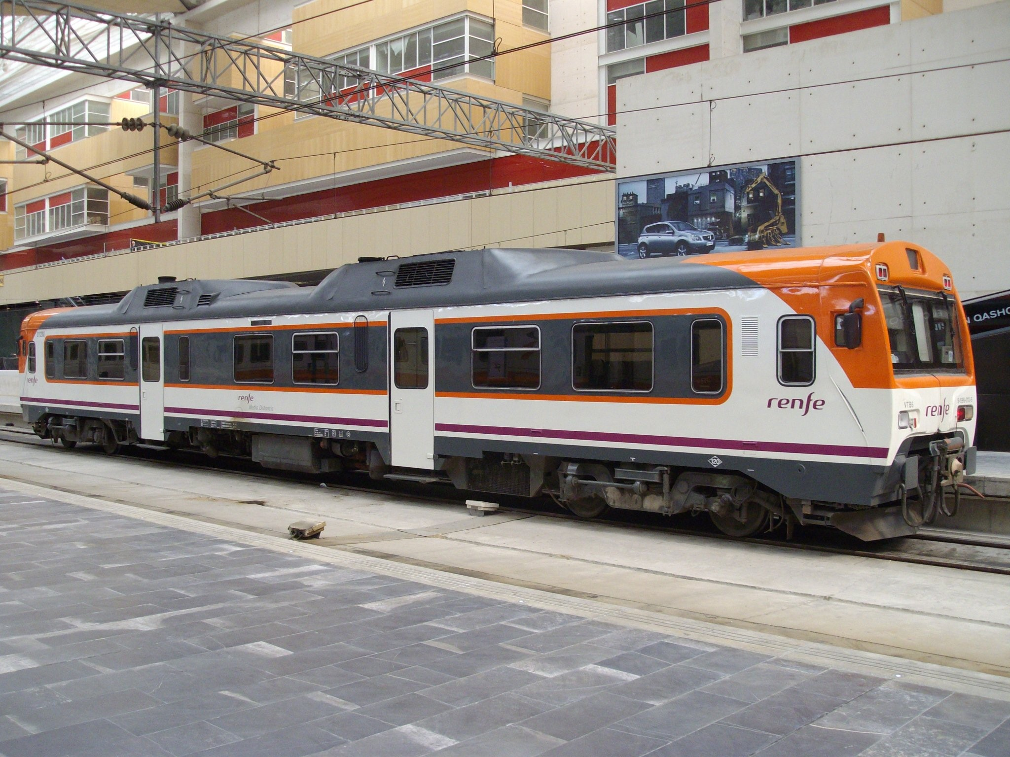 Arrival of a RENFE Class 596 from Canfranc.